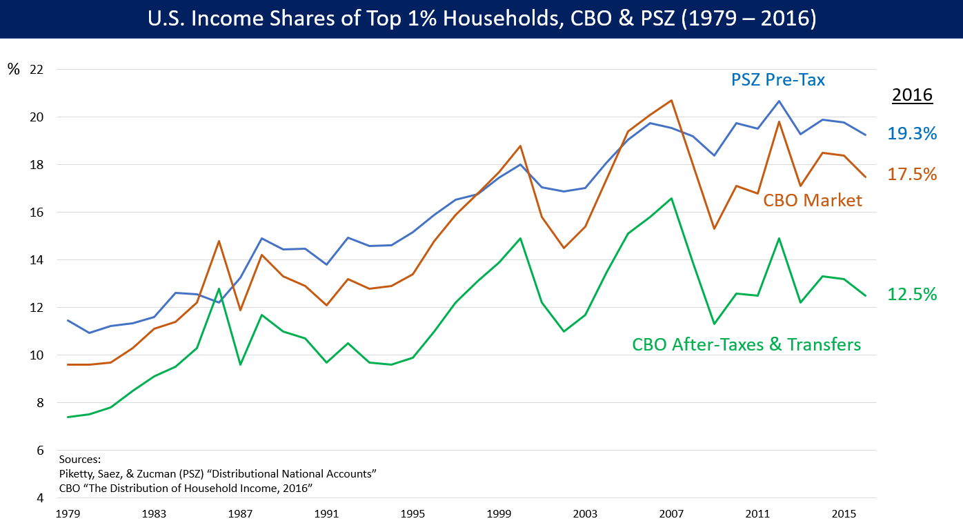 U.S. Top 1 % Income Shares, CBO and PSZ Data 1979 - 2016